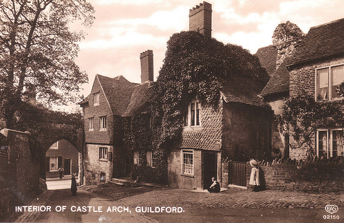 Image courtesy of Philip Hutchinson